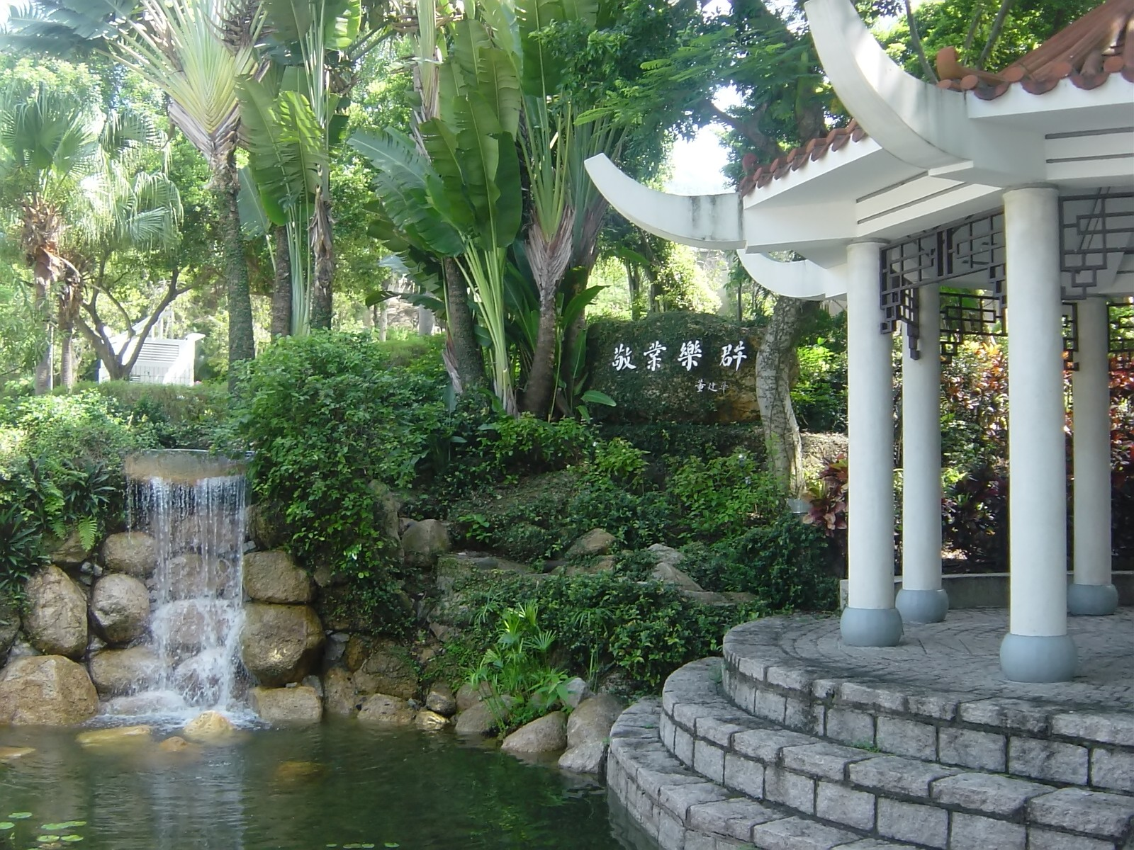 City University of Hong Kong, Kowloon Tong, Hong Kong.